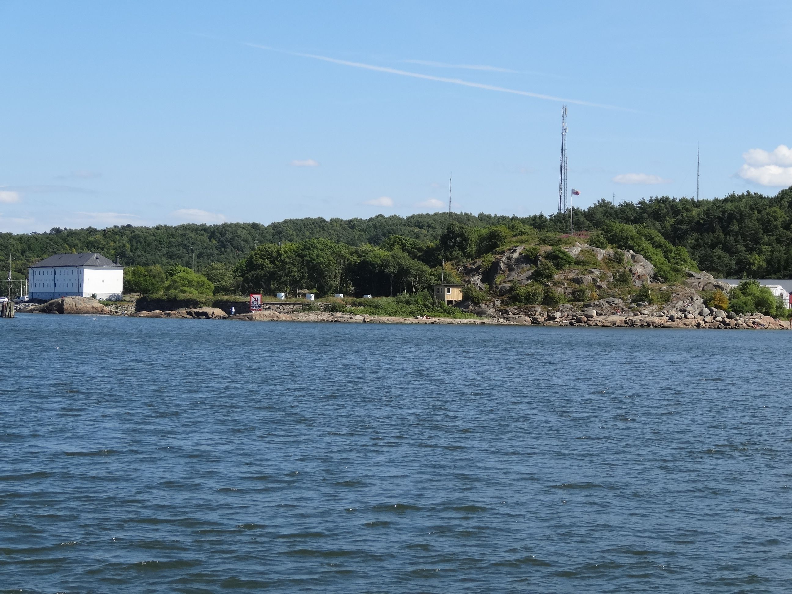 Lilla Billingen close to Nya Varvet naval base in Gothenburg, Sweden.